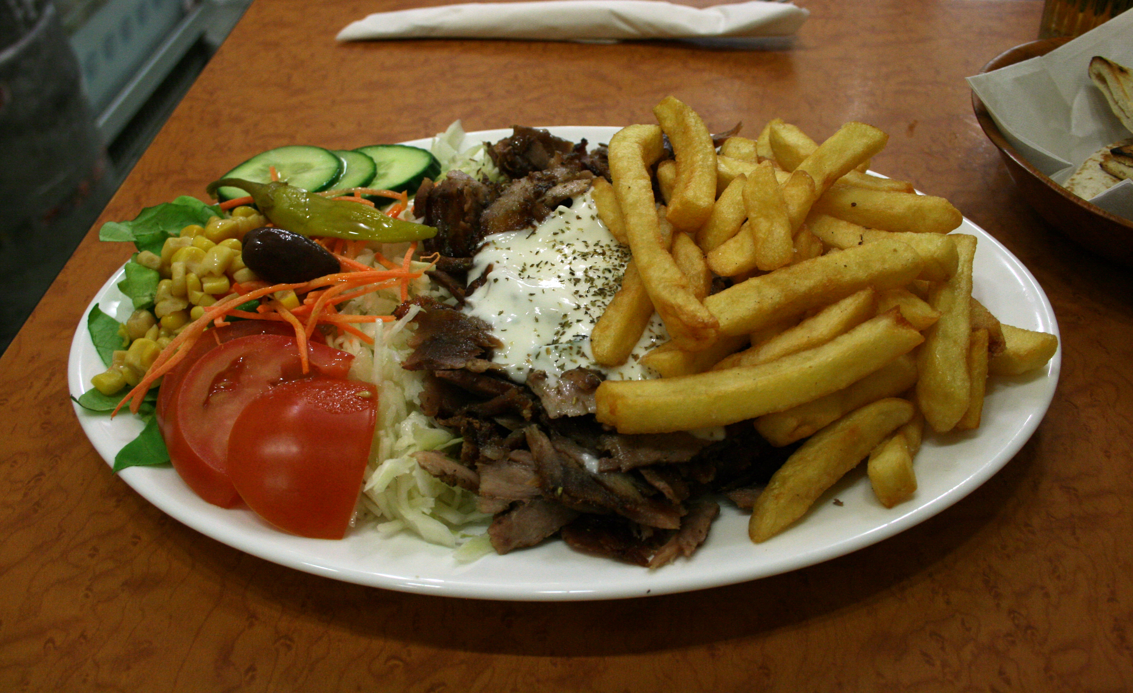 Gyros with vegetables in Brussels